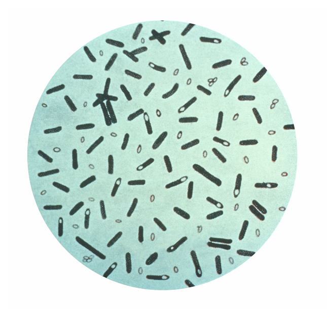 A photomicrograph of Clostridium botulinum bacteria. This is a photomicrograph of Clostridium botulinum stained with Gentian violet. The bacterium C. botulinum produces a nerve toxin, which causes the rare, but serious paralytic illness Botulism.